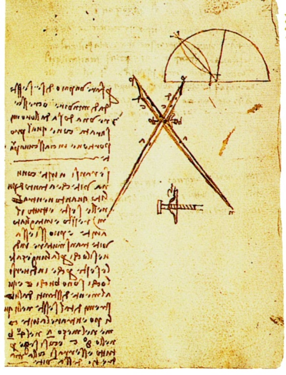 Reduction compass, Codice Forster I